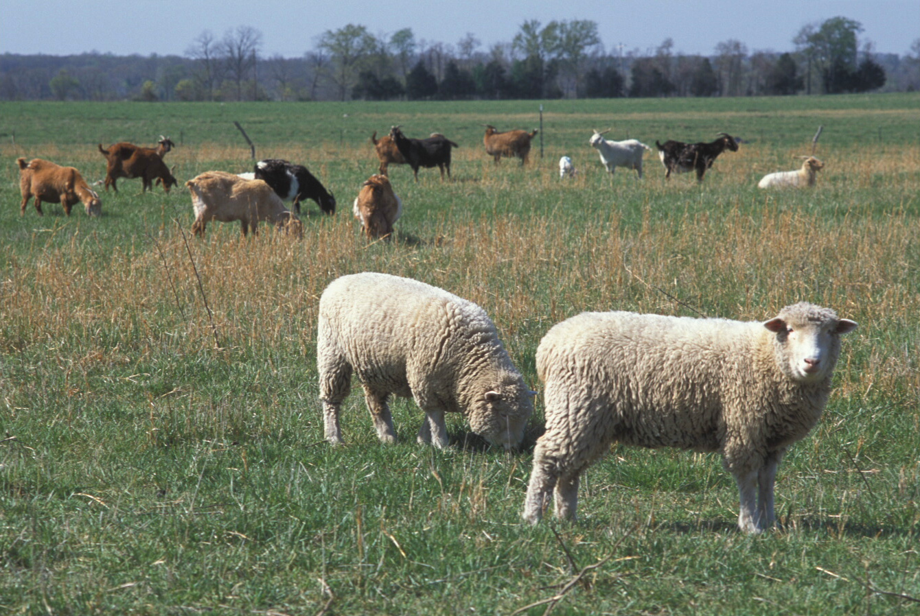 An image showing Ovis aries in field with goats.